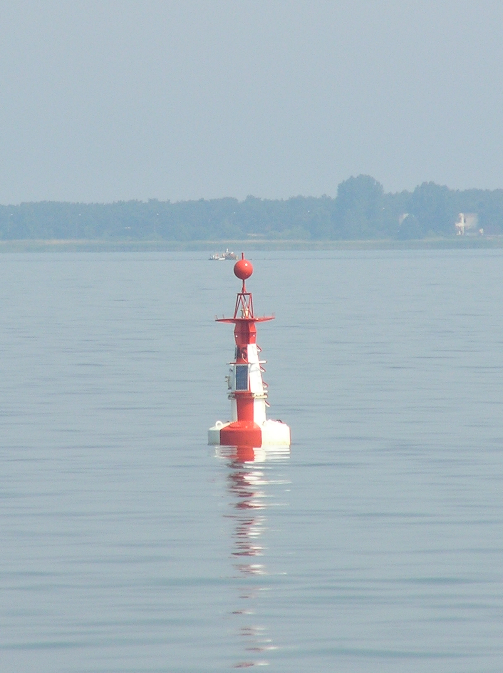 Safe water buoy "JAS" on the Bay of Puck.